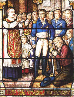 Stained glass window of the Saint-Pavin church in Le Pin-en-Mauges presenting general Maurice Joseph Gigost d'Elbée orders the reopening of the churches which had been closed by the French republican forces